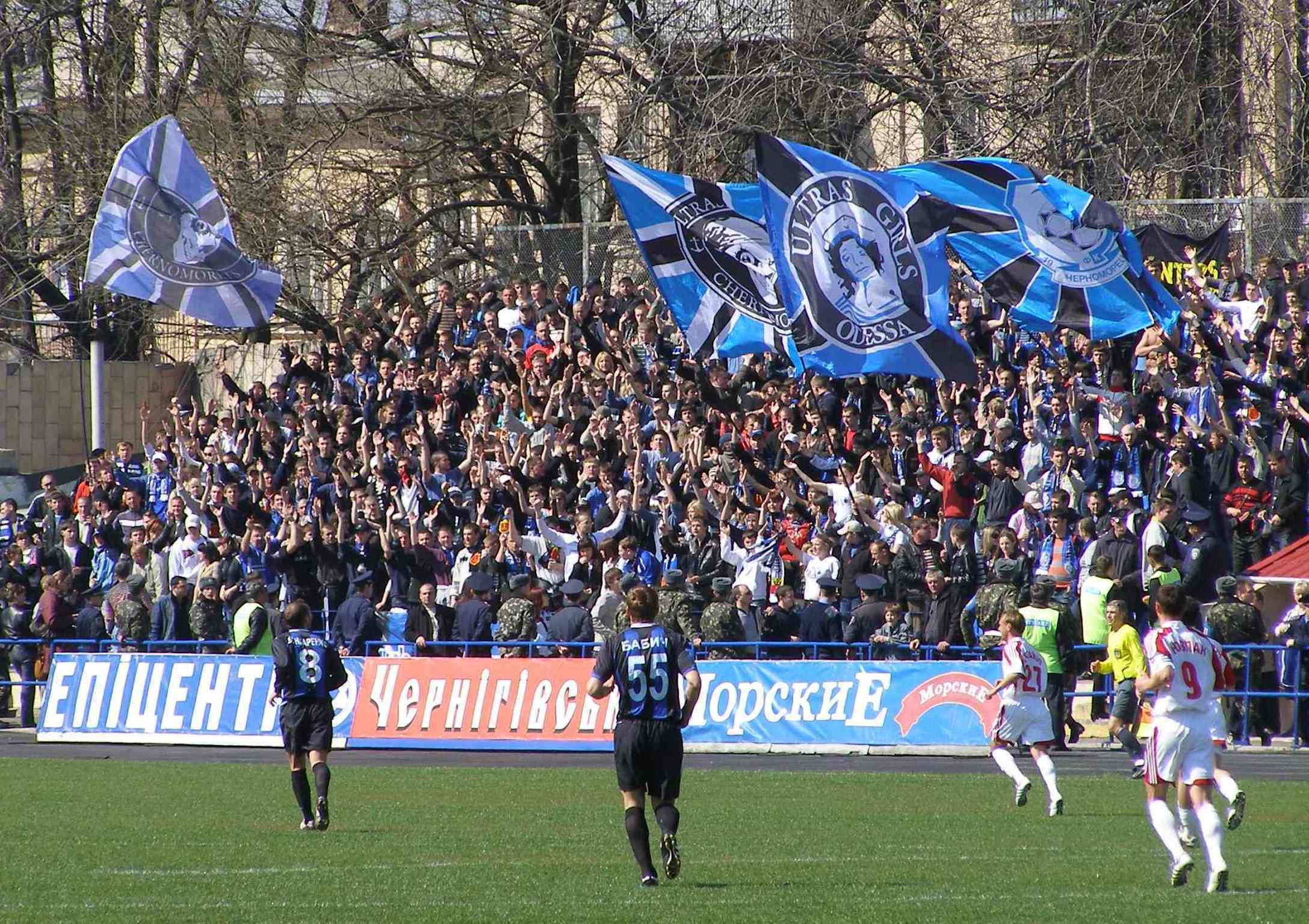 Chornomorets Odesa supporters